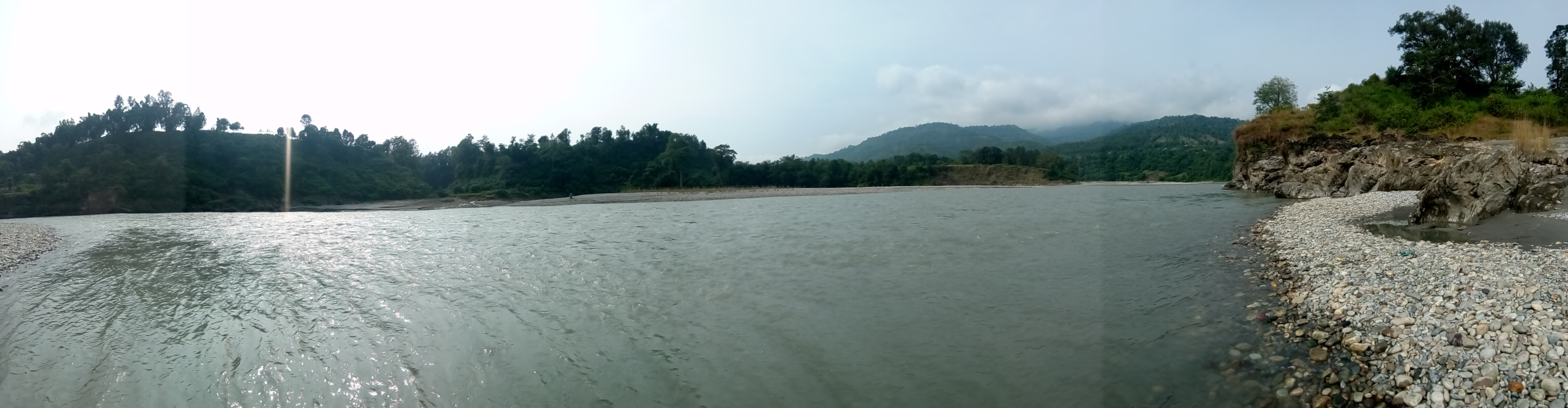 Kali river as seen from the Ramghat in Syangja side. Other information It shows the panorama picture of the place of the bending point of kali river.